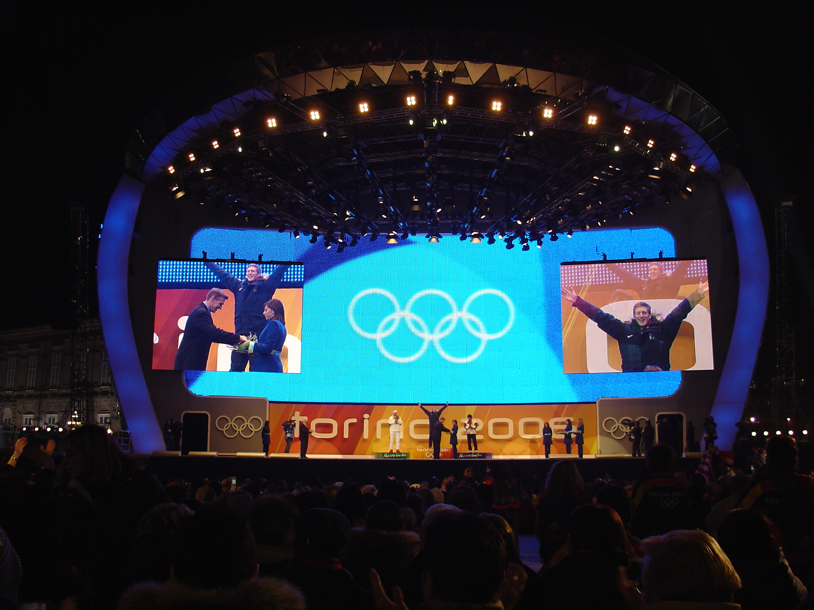 Torino 2006 Medals Plaza